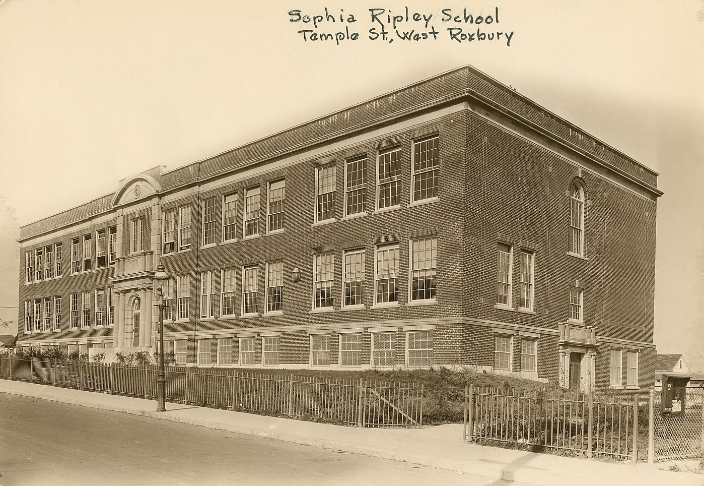 Sophia Ripley School (Exterior)